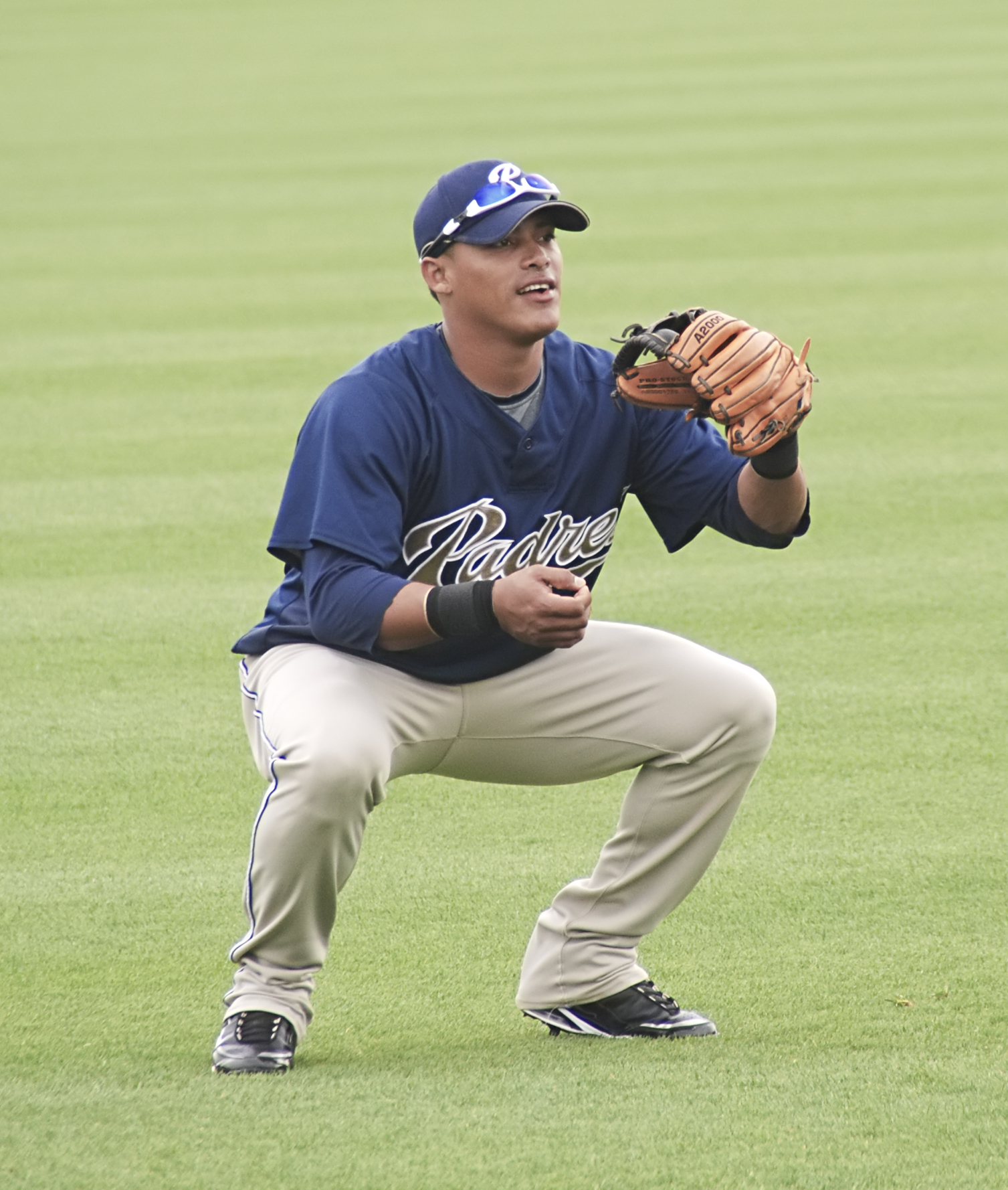 Everth Cabrera, baseball player for the San Diego Padres in spring training 2009 in Peoria, Arizona.